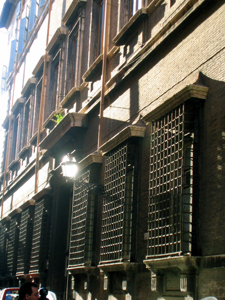 This palace, built with the proceeds of a family bank and with the gatekeeping fees from the Ghetto gate, used to be the home of the Mattei dukes of Giove.